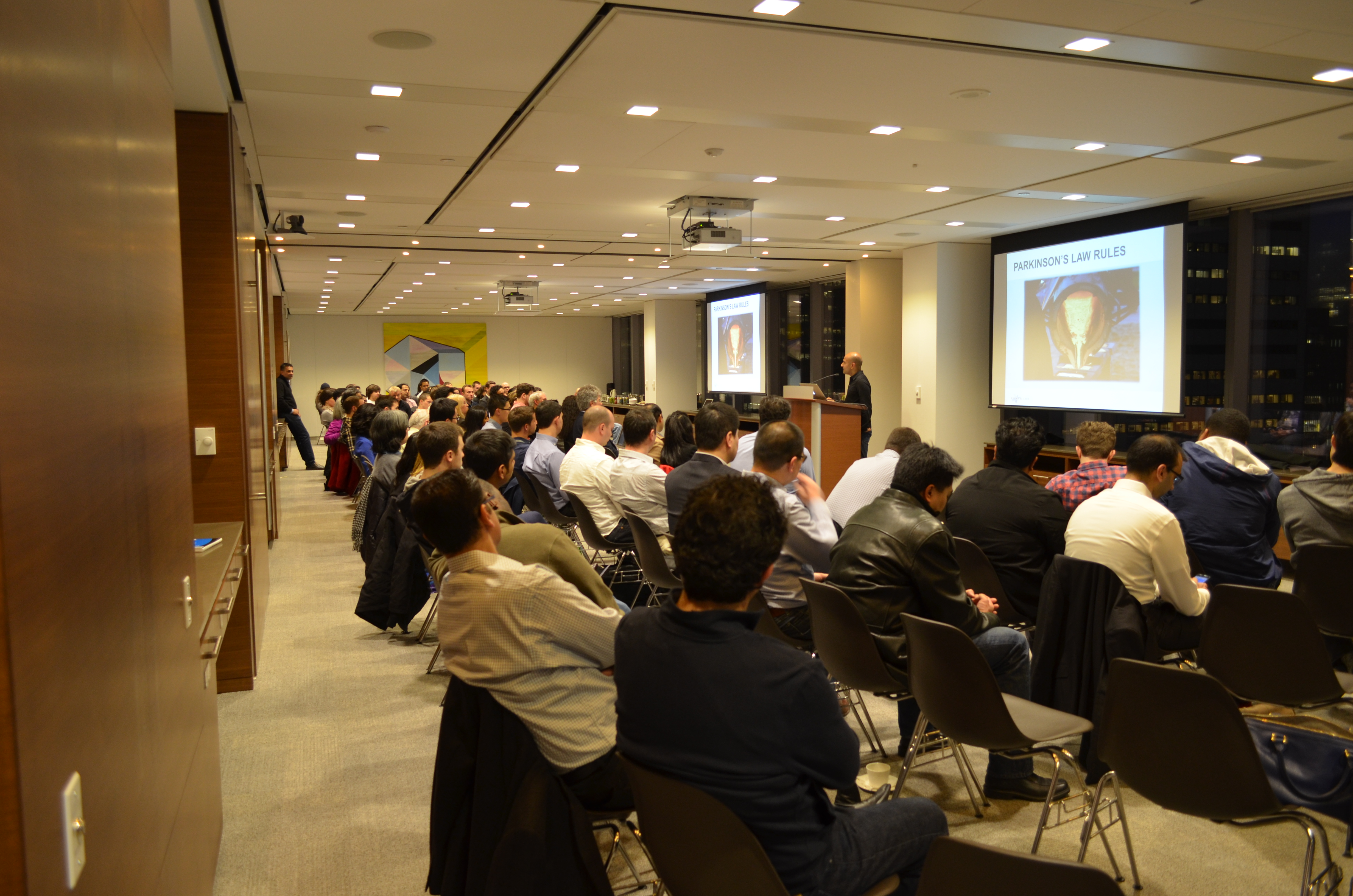 Talk "Making the Leap from Employee to Entrepreneur in Toronto with Farhan Thawar" given by Farhan Thawar (VP Engineering, Pivotal Labs).